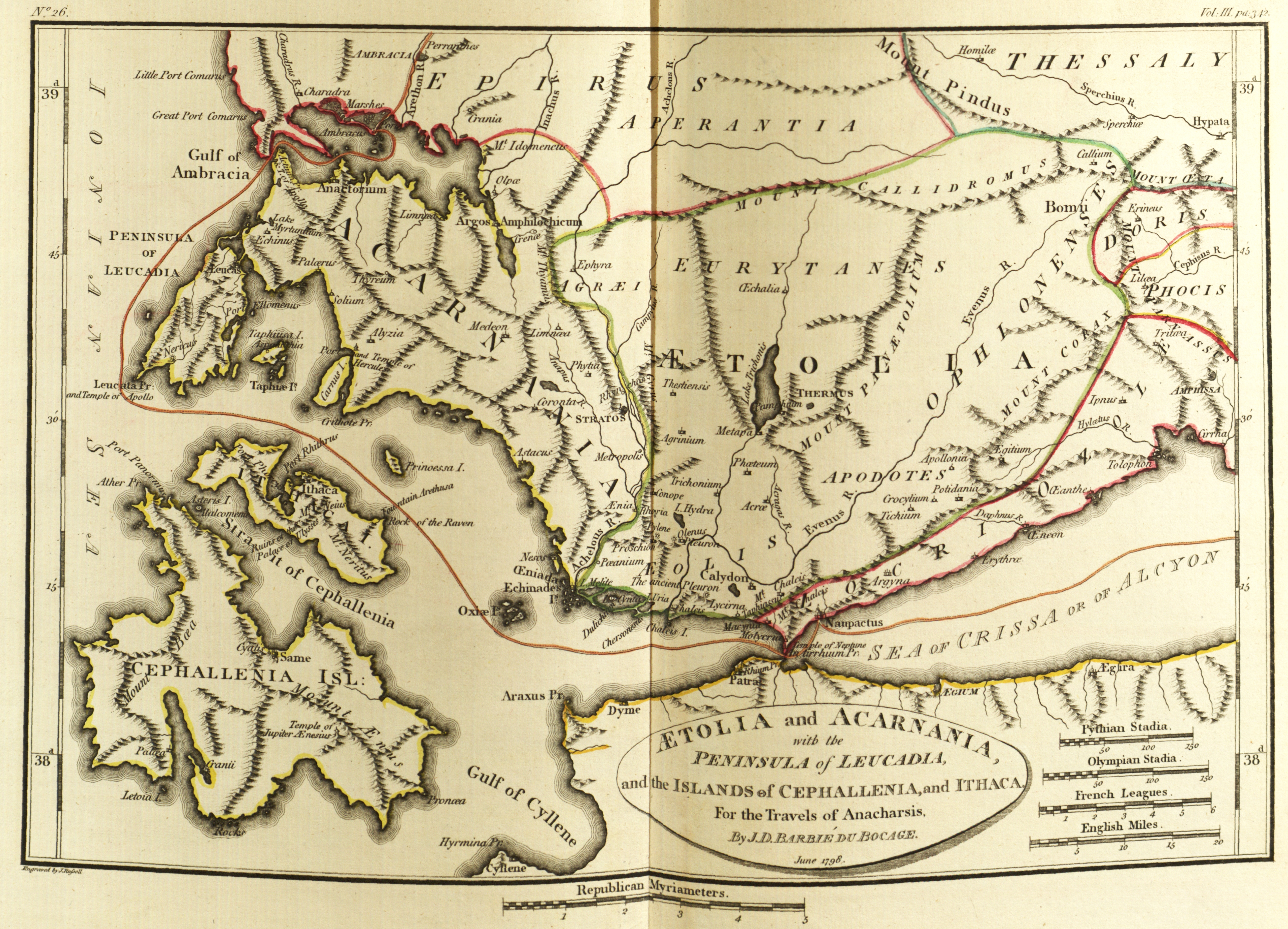 Map of Ancient Aetolia and Acarnania This image is in the public domain because it is a mere mechanical scan or photocopy of a public domain original, or – from the available evidence – is so similar to such a scan or photocopy that no copyright protection can be expected to arise. The original itself is in the public domain for the following reason: This work is in the public domain in its country of origin and other countries and areas where the copyright term is the author's life plus 100 years or less. This work is in the public domain in the United States because it was published (or registered with the U.S. Copyright Office) before January 1, 1923. This file has been identified as being free of known restrictions under copyright law, including all related and neighboring rights. This tag is designed for use where there may be a need to assert that any enhancements (eg brightness, contrast, colour-matching, sharpening) are in themselves insufficiently creative to generate a new copyright. It can be used where it is unknown whether any enhancements have been made, as well as when the enhancements are clear but insufficient. For known raw unenhanced scans you can use an appropriate PD-old tag instead. For usage, see Commons:When to use the PD-scan tag. Note: This tag applies to scans and photocopies only. For photographs of public domain originals taken from afar, PD-Art may be applicable. See Commons:When to use the PD-Art tag.